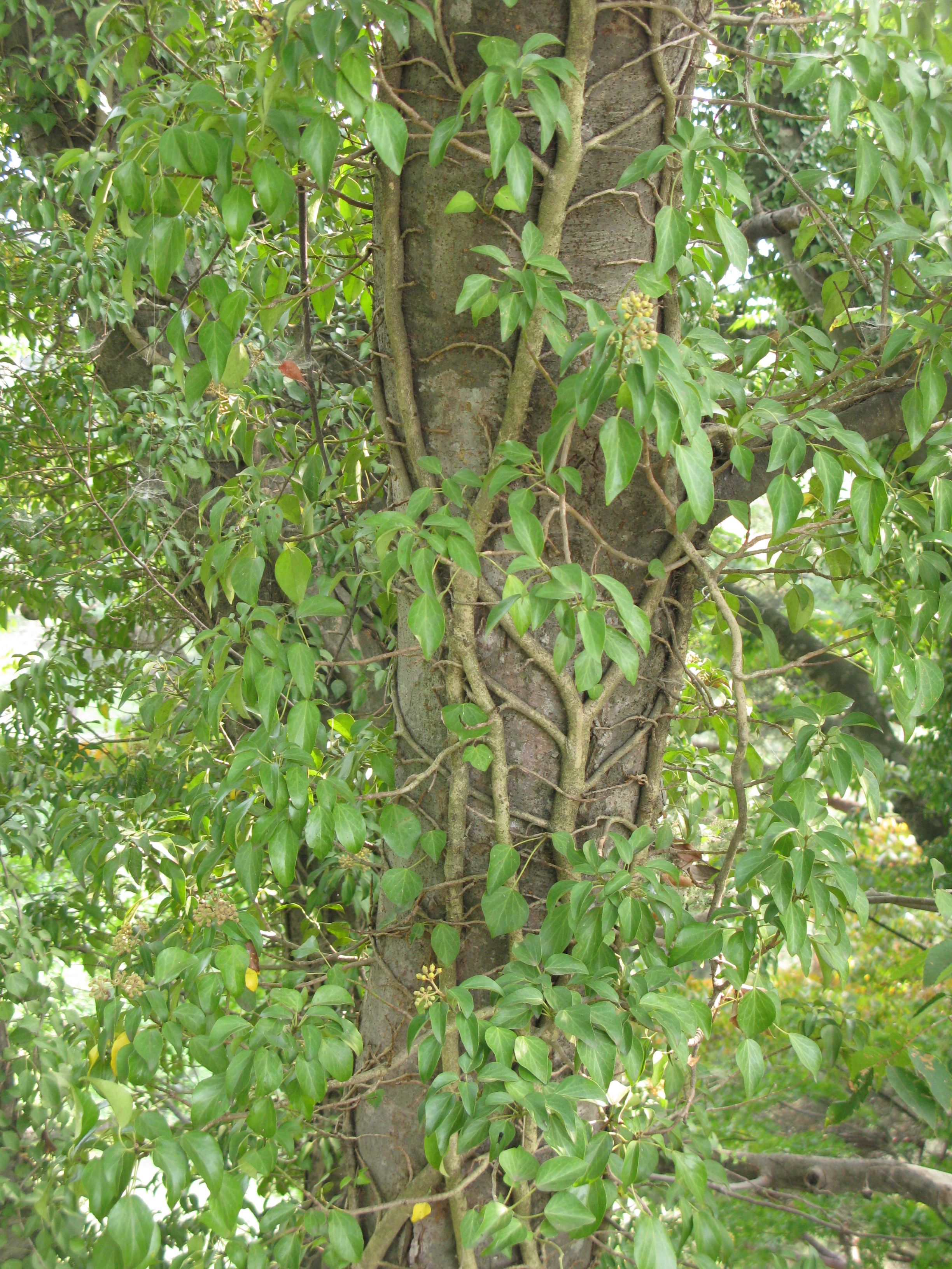 Hedera rhombea, Aizu area, Fukushima pref., Japan